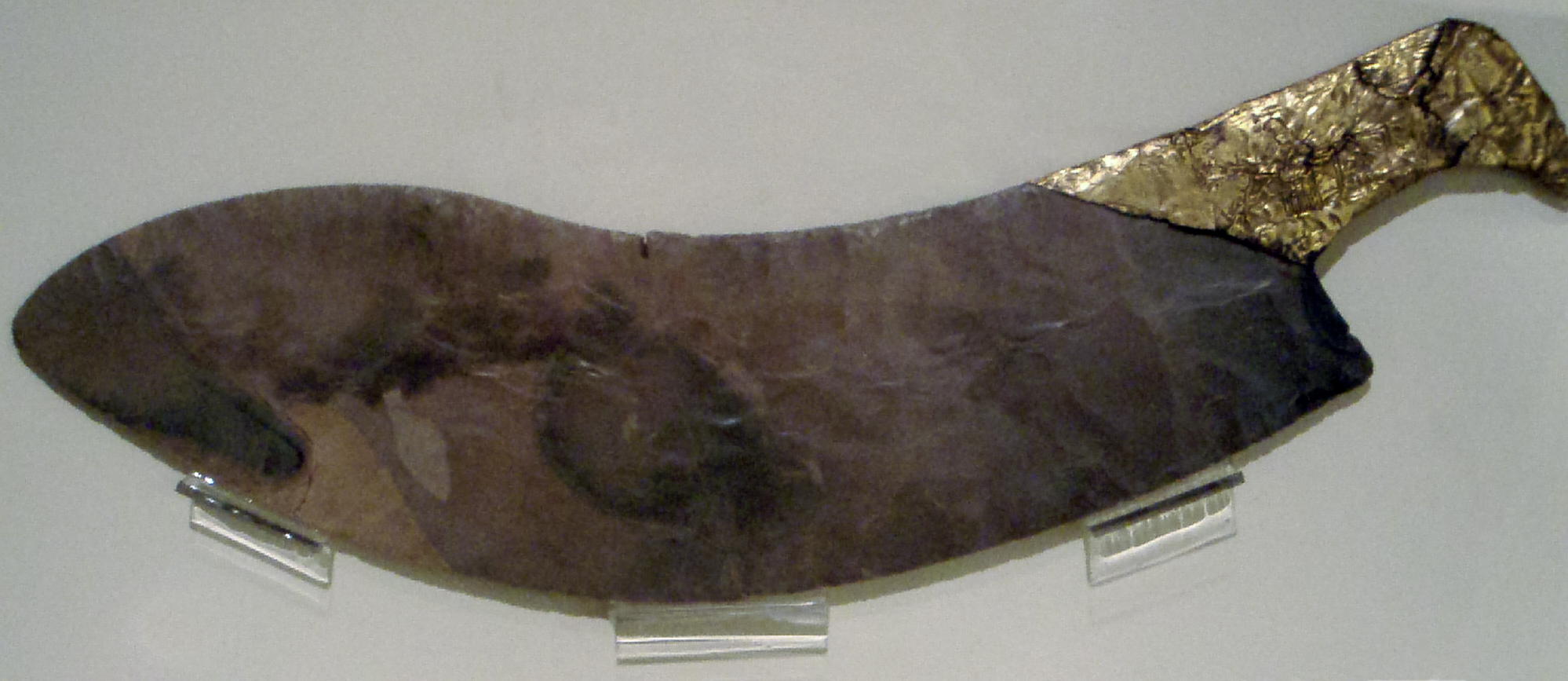 Ceremonial temple butcher knife made of flint, with the Horus name of the pharaoh Djer inscribed on its gold handle. Circa 3000 BC, from the 1st Dynasty. Exhibited at the Royal Ontario Museum, Toronto, Canada.